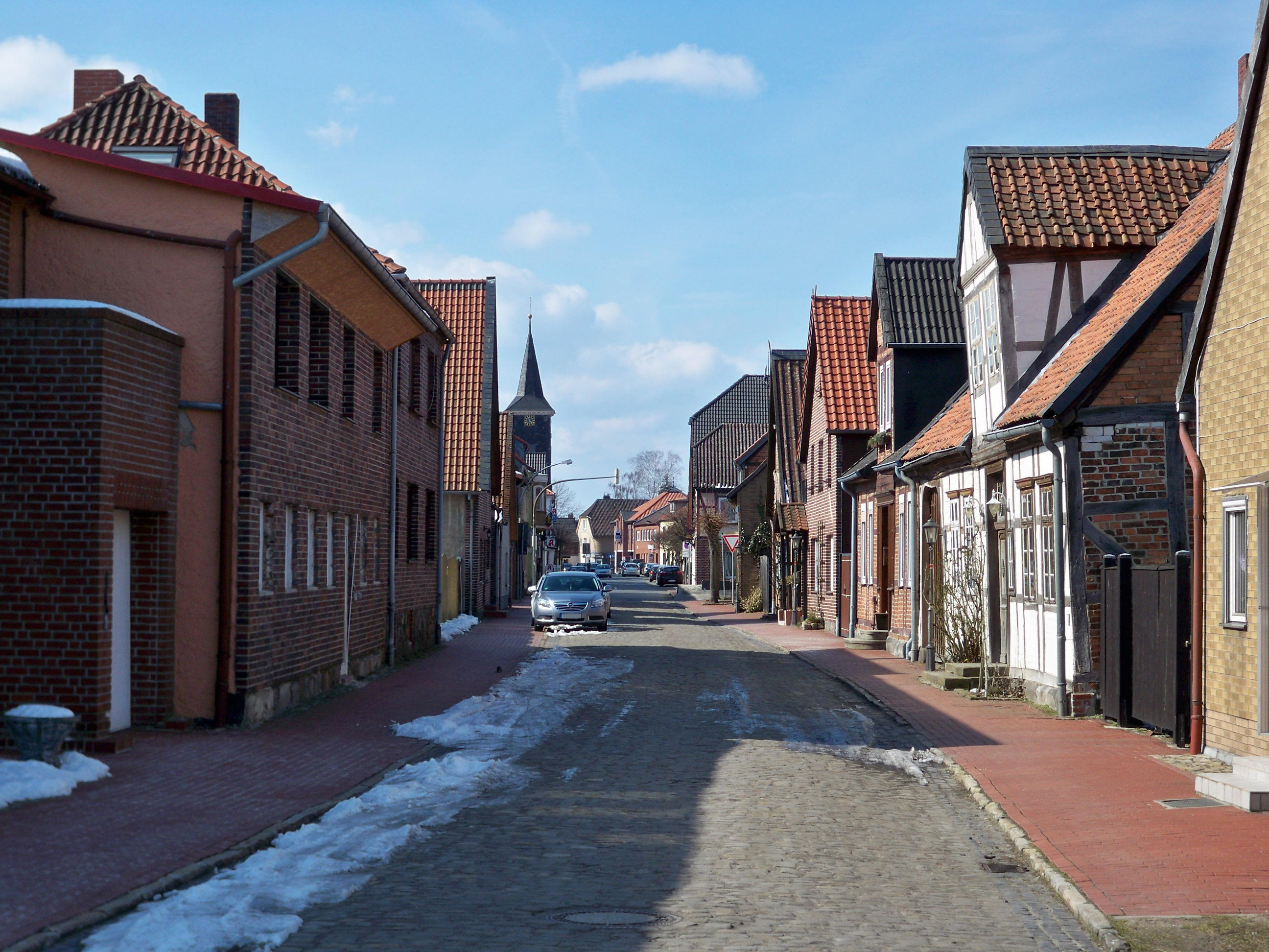 Brome, Lower Saxony, village street "Junkerende"